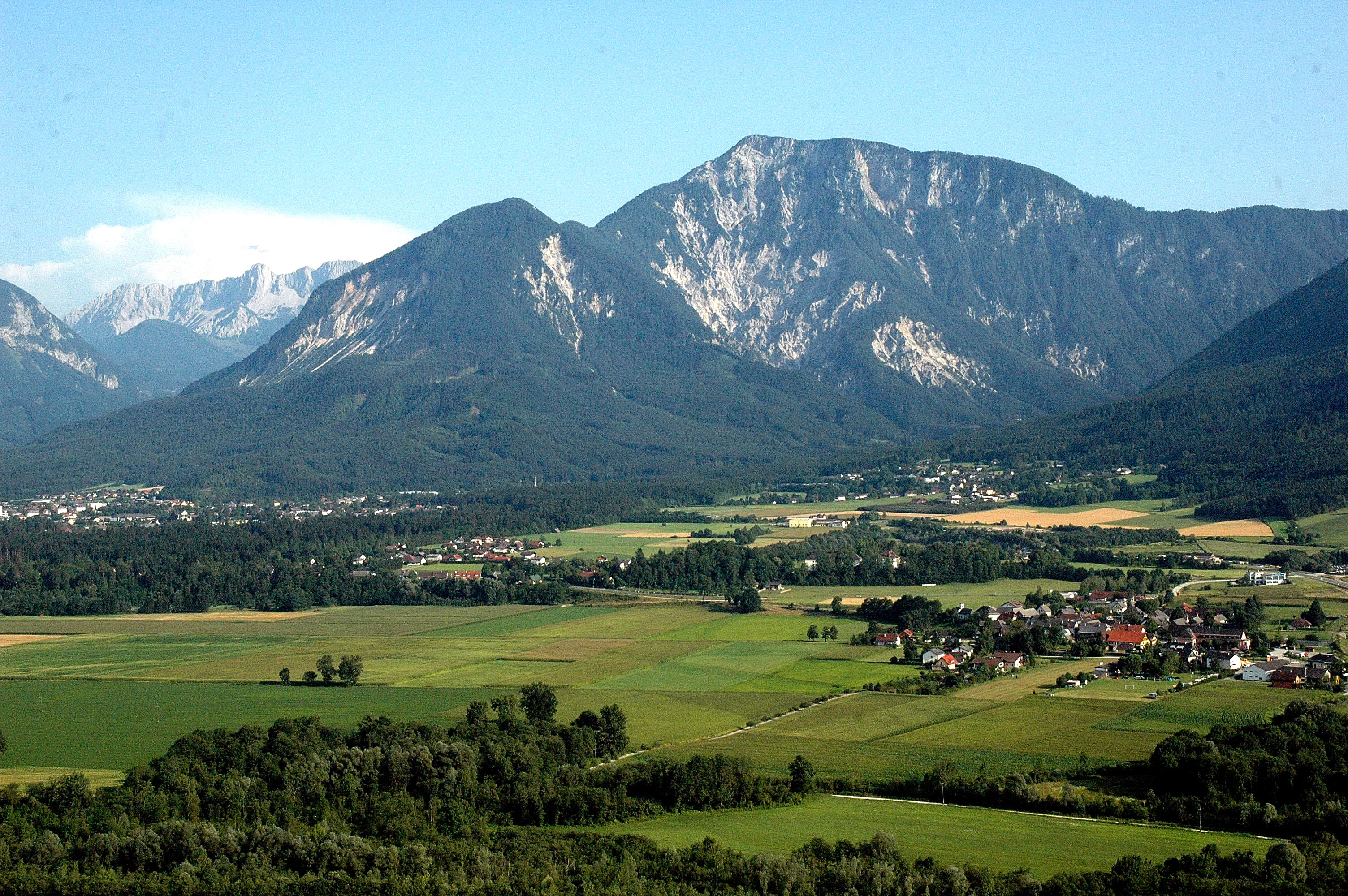 Ferlacher Horn, Carinthia, Austria